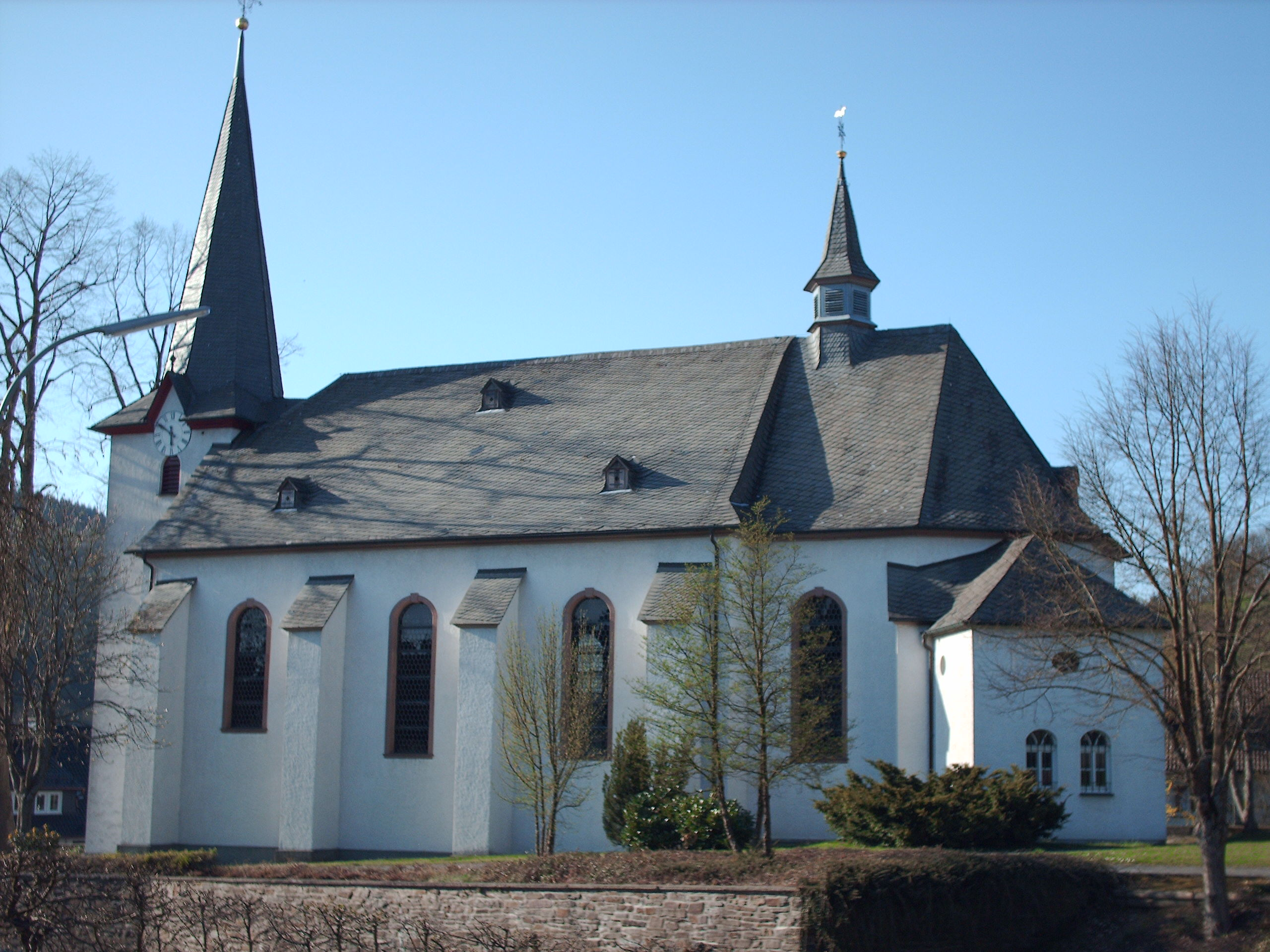 St. Katharina’s church Heinsberg, Kirchhundem, Germany check usage